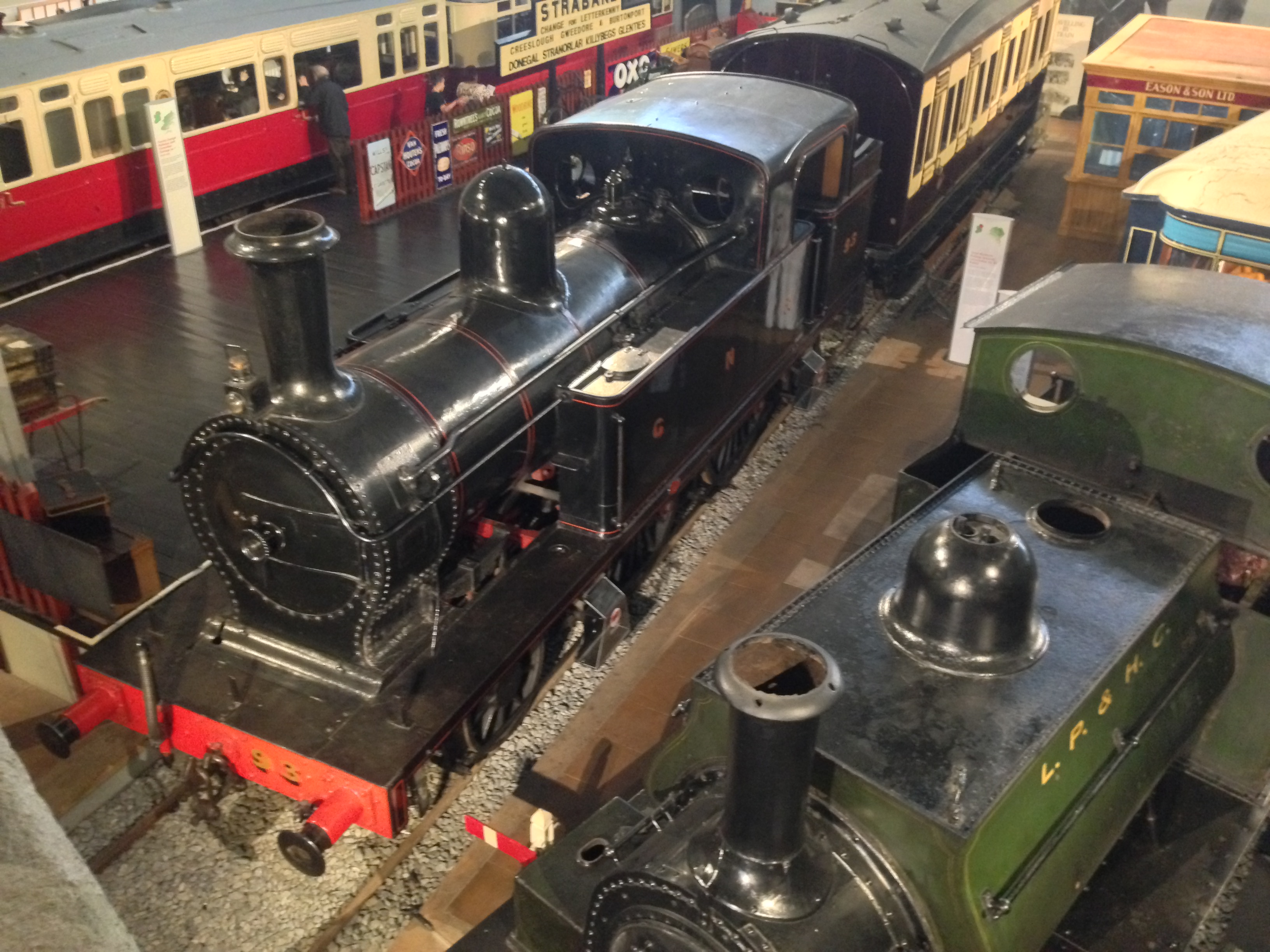 GNRI JT Class No. 93, Sutton in the UFTM.